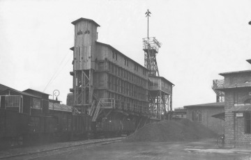 Zinc and lead mine Matylda in Chrzanów, Poland, shaft Lidy and wash plant in 1916.